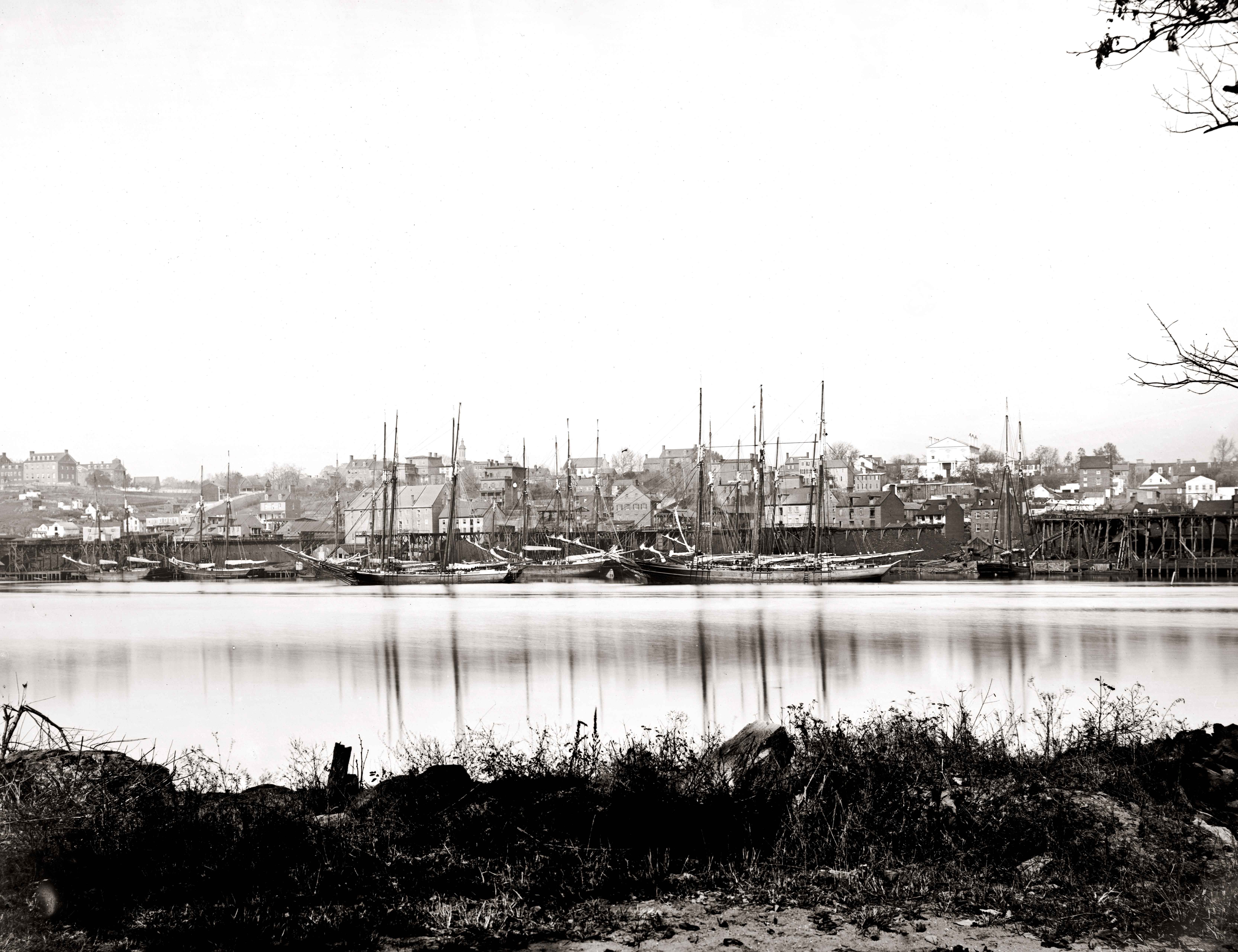 The Georgetown waterfront as viewed from Mason's Island (now known as Theodore Roosevelt Island). When this photograph was taken, Georgetown was still a separate municipality within the District of Columbia until it was consolidated with Washington City in 1871.